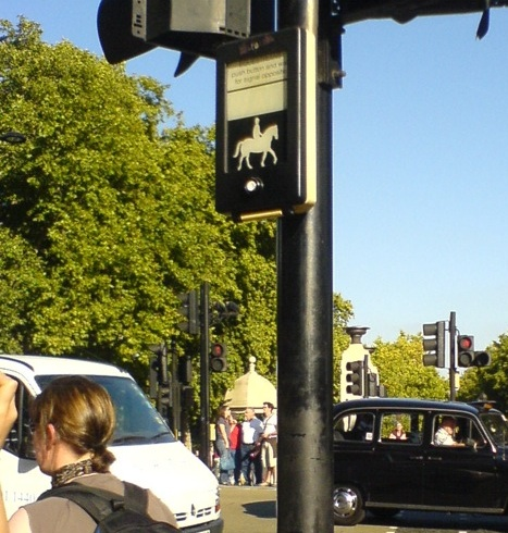 Closeup of Pegasus crossing control panel